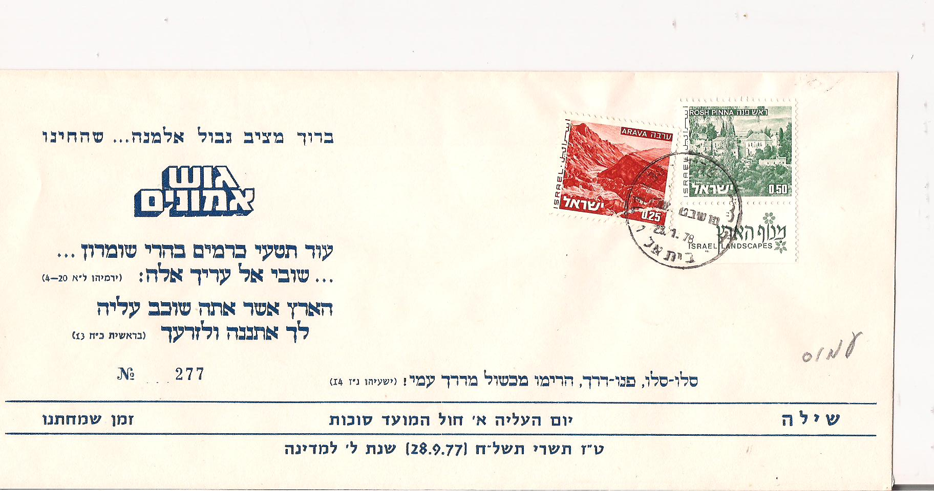 Special postal envelope for the founding of the settlement of Shilo 11-1977